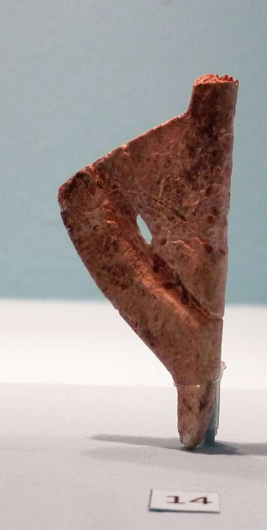 Female figure in ivory, Andernach, Kreis Mayen-Koblenz, copy. Magdalenian Venus, ca. 15 000 BP, ca. Source: Display at LVR-LandesMuseum Bonn Lender of the piece: Directorate General for Cultural Heritage Rhineland-Palatinate